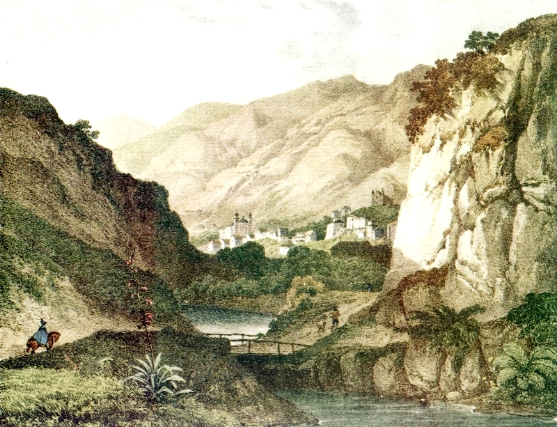 Vila Rica, nowadays Ouro Preto city in Minas Gerais state